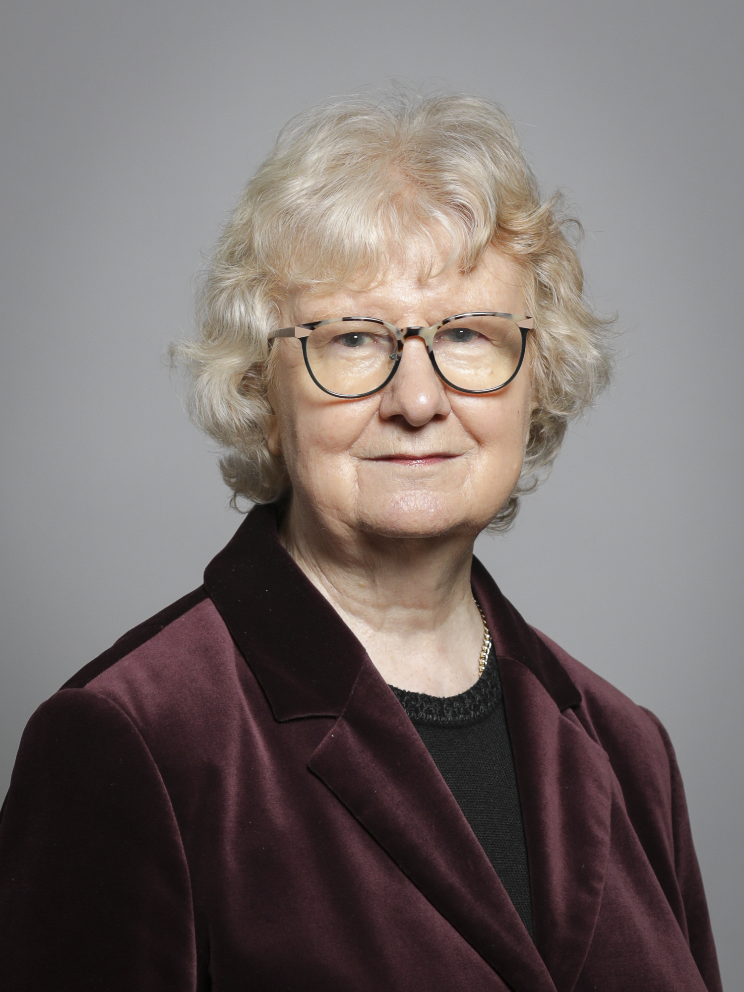 Official portrait of Baroness Donaghy 3×4 portrait of Baroness Donaghy